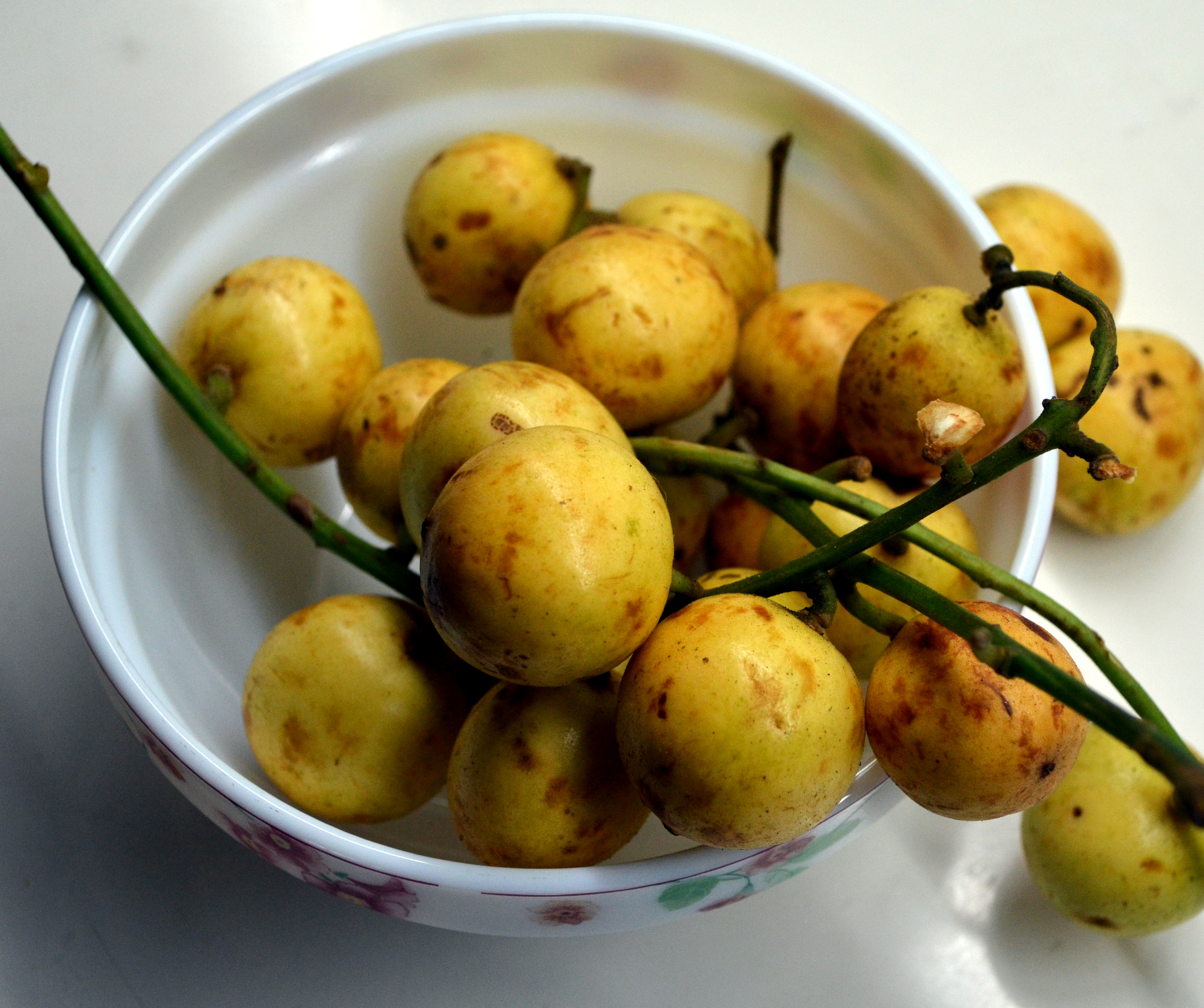 Assamese - লেতেকু Bengali - লটকন English - Burmese Grapes Botanical Name - Baccaurea ramiflora Taken at Guwahati, Assam, India.